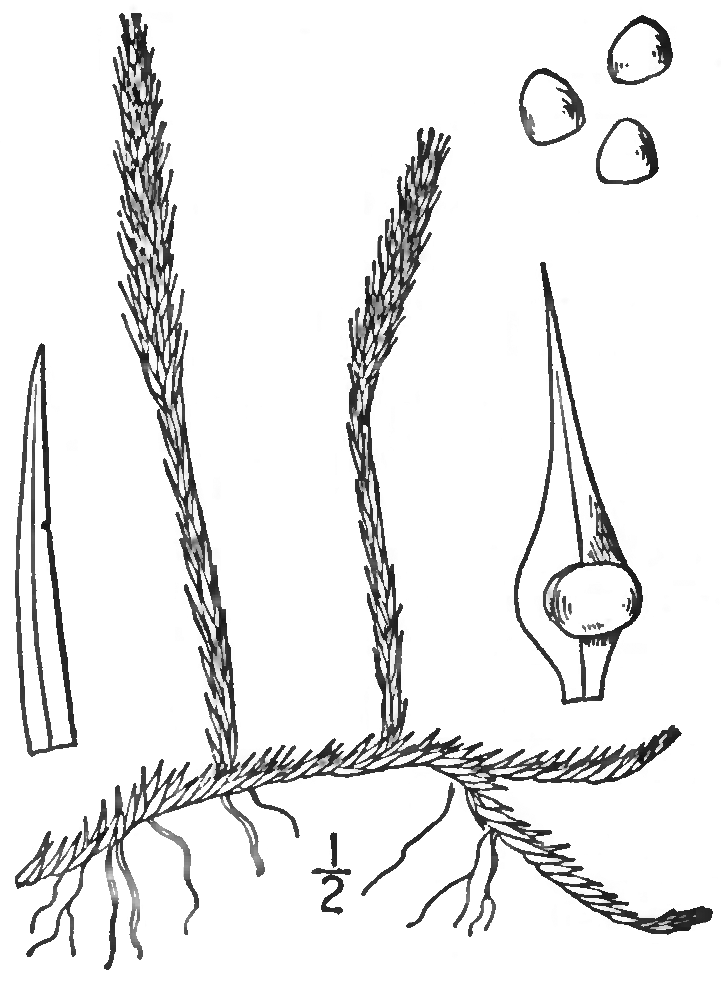 Fig. 103. Lycopodium inundatum from the second edition of An Illustrated Flora of the Northern United States, Canada and the British Possessions (New York, 1913)